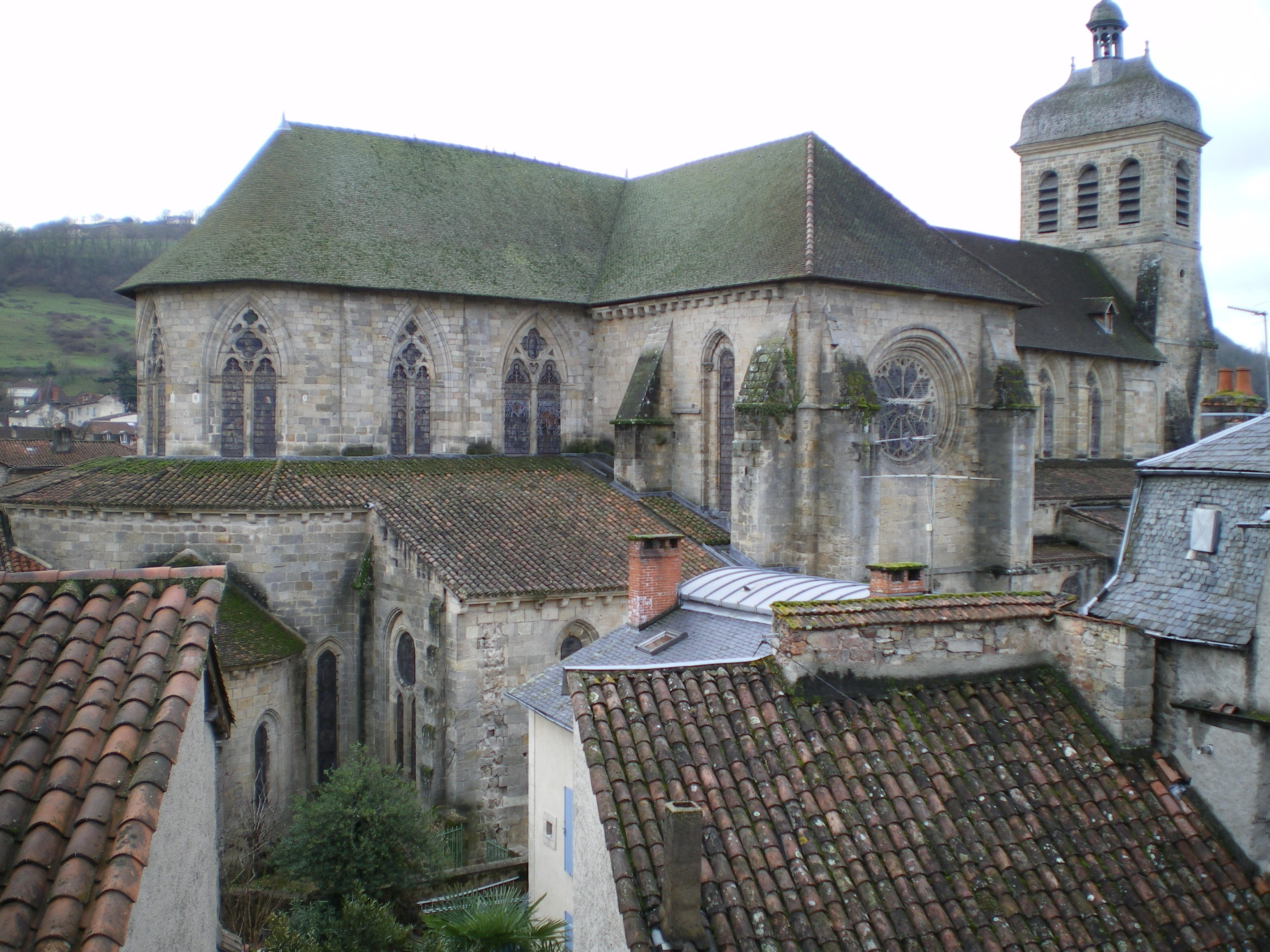 Saint-Sauveur Church, Figeac, France